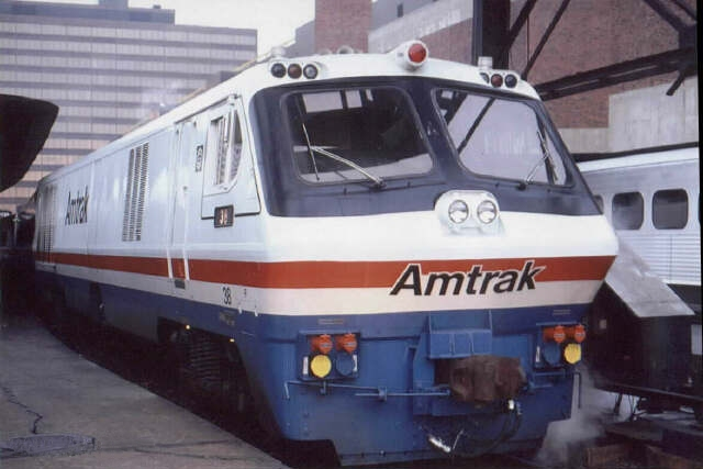 Amtrak's "Beacon Hill" run used Bombardier LRC locomotive #38, as seen here in December 1980 at South Station. At right is a GO Transit coach, then rented by the MBTA while its own rolling stock was on order.